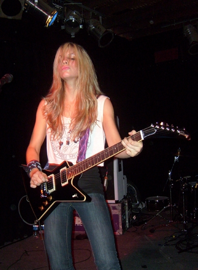 Allison Robertson, guitar, The Donnas